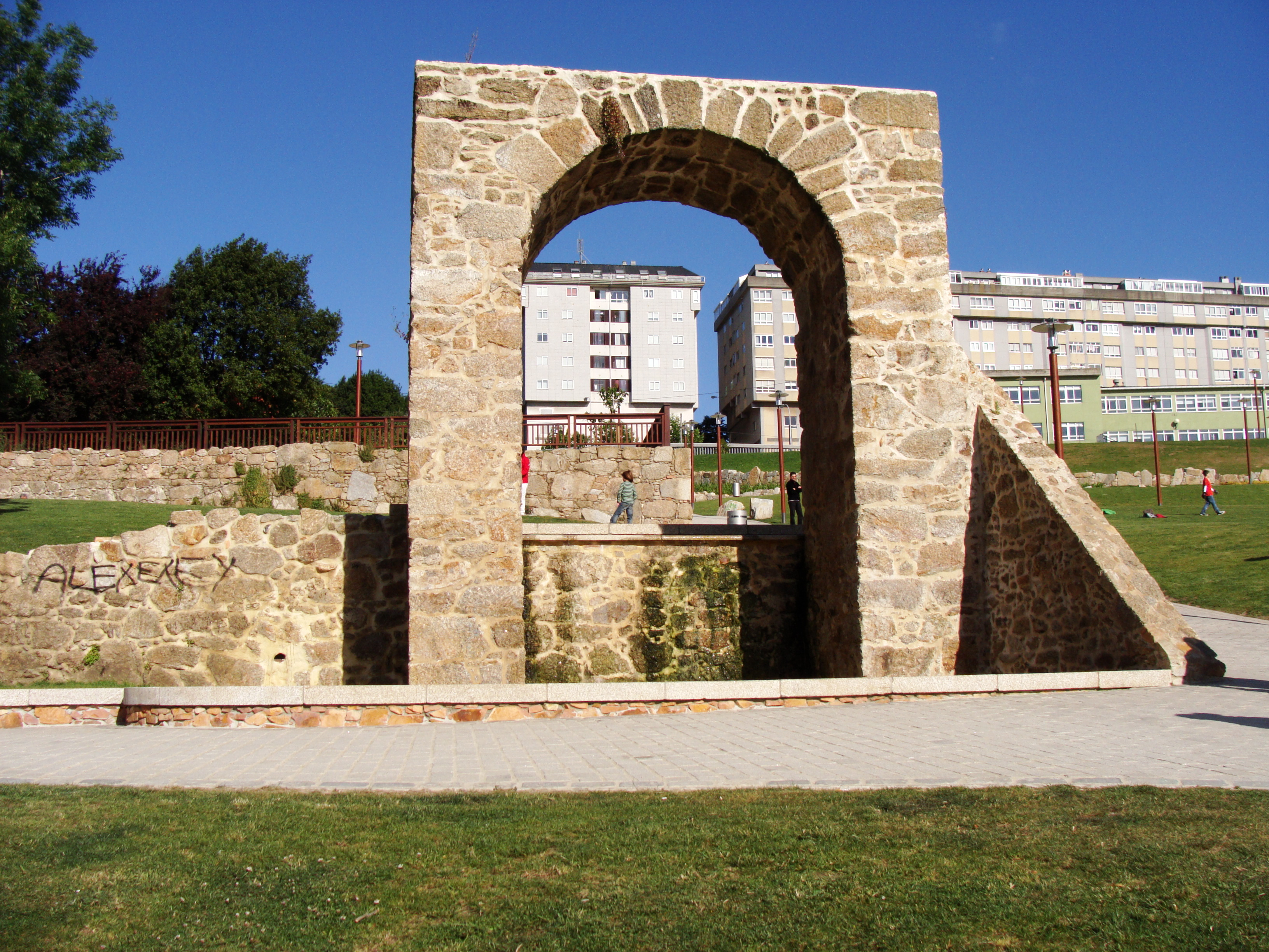 Oza's Park, in Corunna, Galicia, Spain